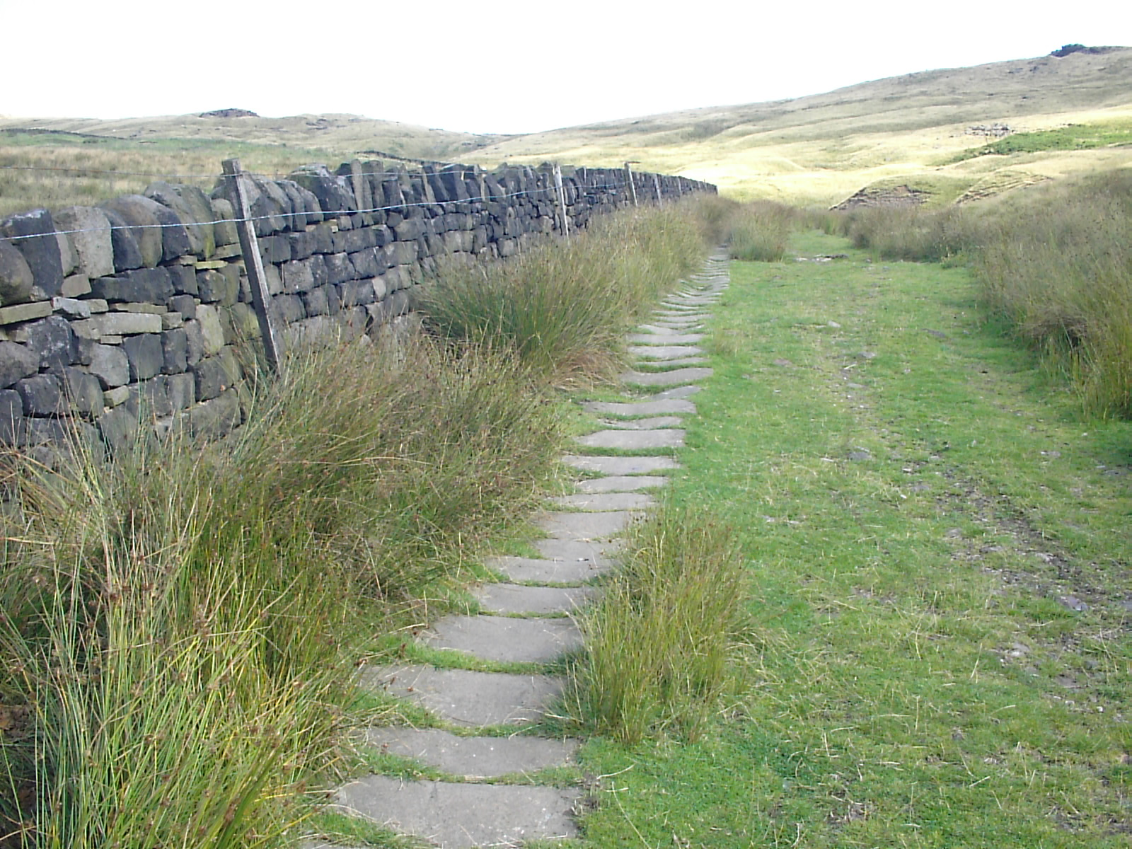 The Long Causeway. View west towards Withens Gate along the old packhouse route from Lumbutts to Withins Clough. This route is currently a permissive bridleway and forms part of the Calderdale Way.